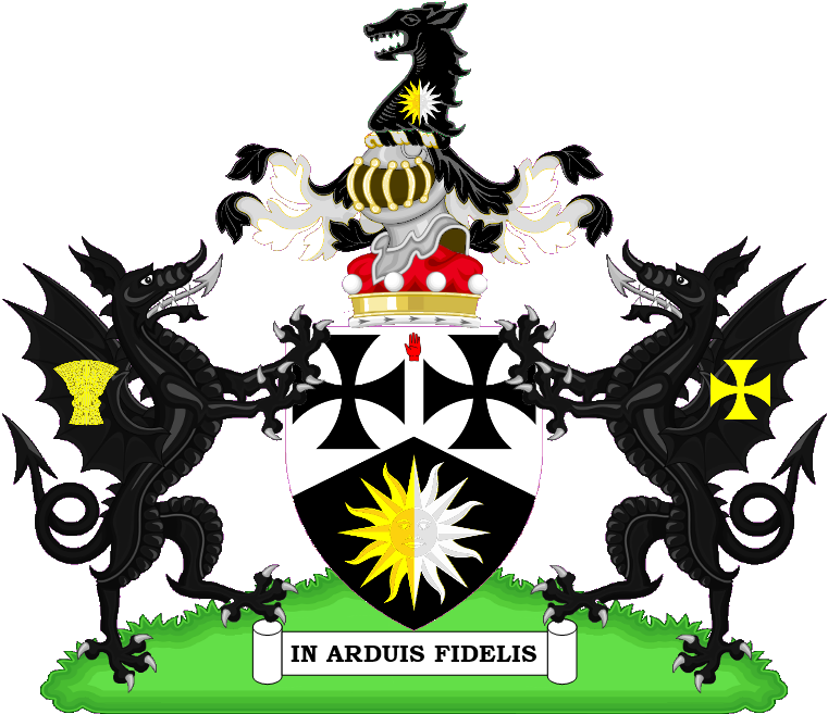 The armorial achievement of The Lord Riverdale